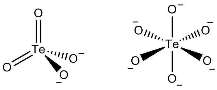 structure of metatellurate and orthotellurate ions made with ChemDraw